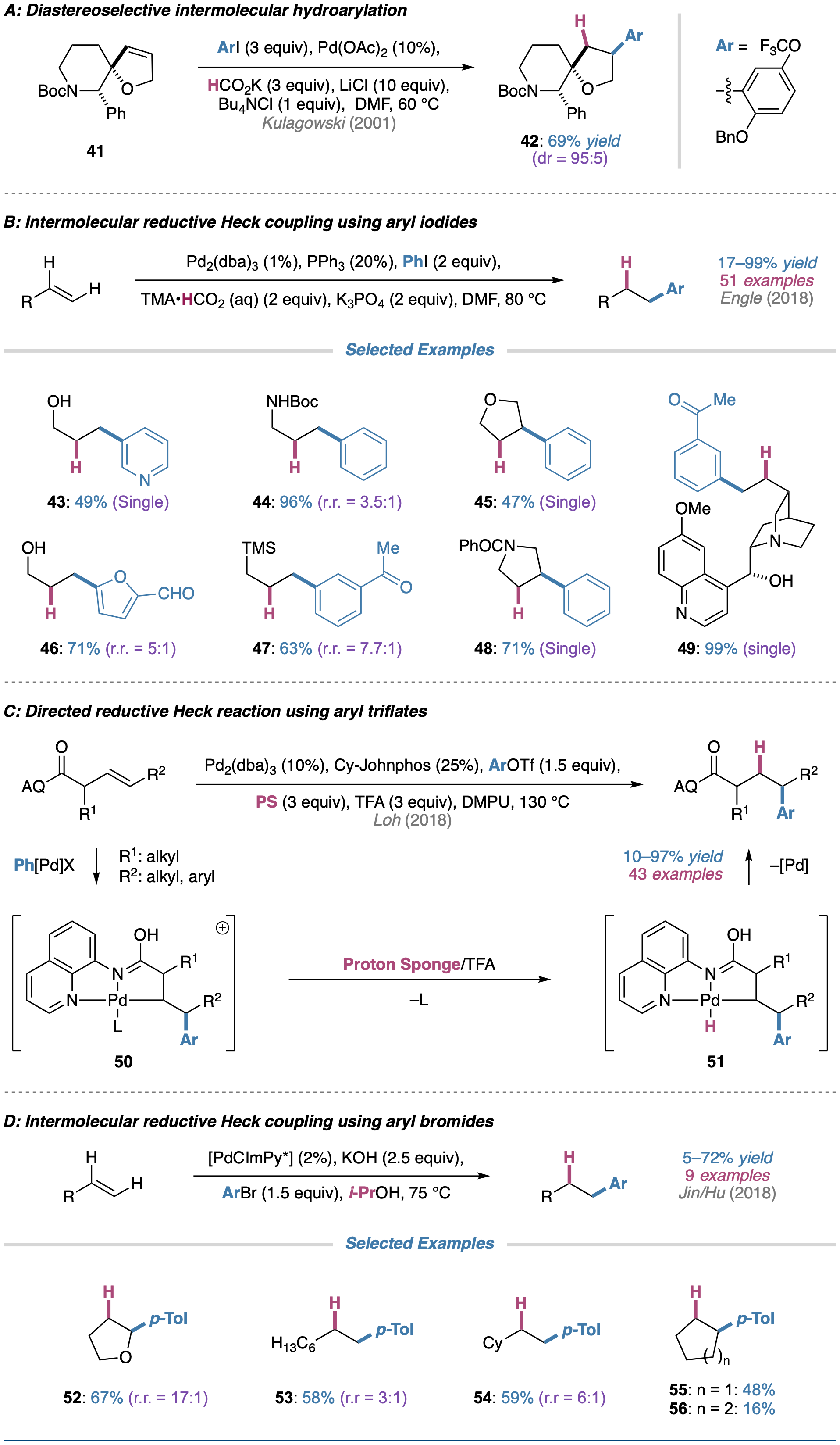 Reactions with Terminal and Unactivated Alkenes. (A) Diastereoselective reductive Heck reaction used by chemists at Merck in the synthesis of NK-1 receptor antagonist precursors. (B) Regioselective reductive Heck coupling of cyclic and unactivated terminal alkenes with aryl iodides. (C) 8-aminoquinoline-directed reductive Heck reaction using aryl triflates. (D) Regioselective reductive Heck coupling of cyclic and unactivated terminal alkenes with aryl bromides.